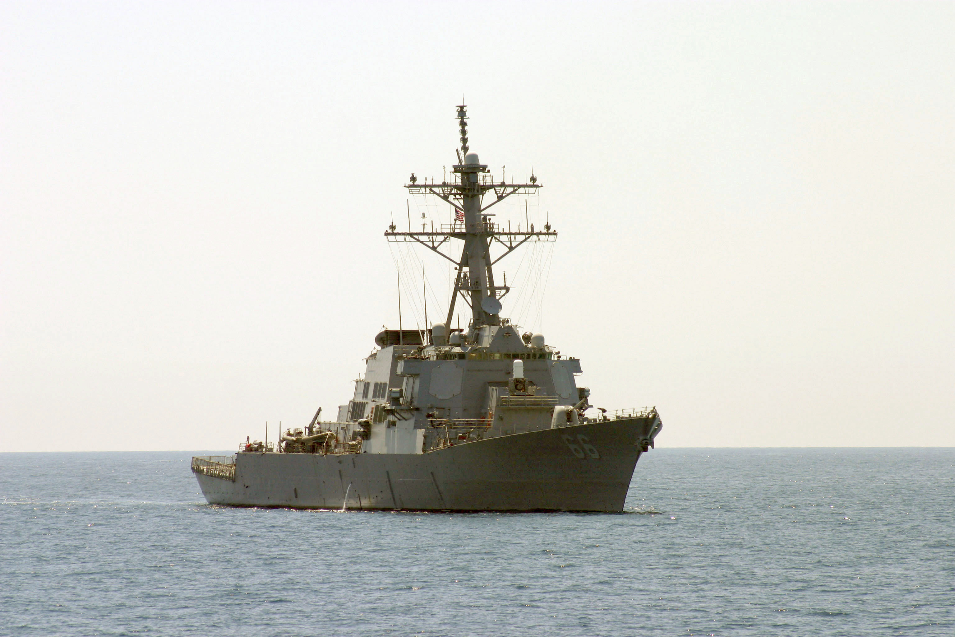 Mediterranean Sea (Apr. 22, 2004) - The guided missile destroyer USS Gonzalez (DDG 66) cruises in the Mediterranean Sea during exercise Clever Sentinel 2004. The exercise is a multilateral maritime interdiction training exercise led by Italy in the Mediterranean Sea. The exercise was part of the U.S. launched Proliferation Security Initiative (PSI), a collaborative effort to take active measures against trafficking in WMD, their delivery systems and related materials to and from states and non-state actors of proliferation concern around the world. Five nations, including the U.S., provided assets for the exercise and several nations sent observers to the exercise. U.S. Navy photo by Journalist 3rd Class Stephen P. Weaver. (RELEASED)